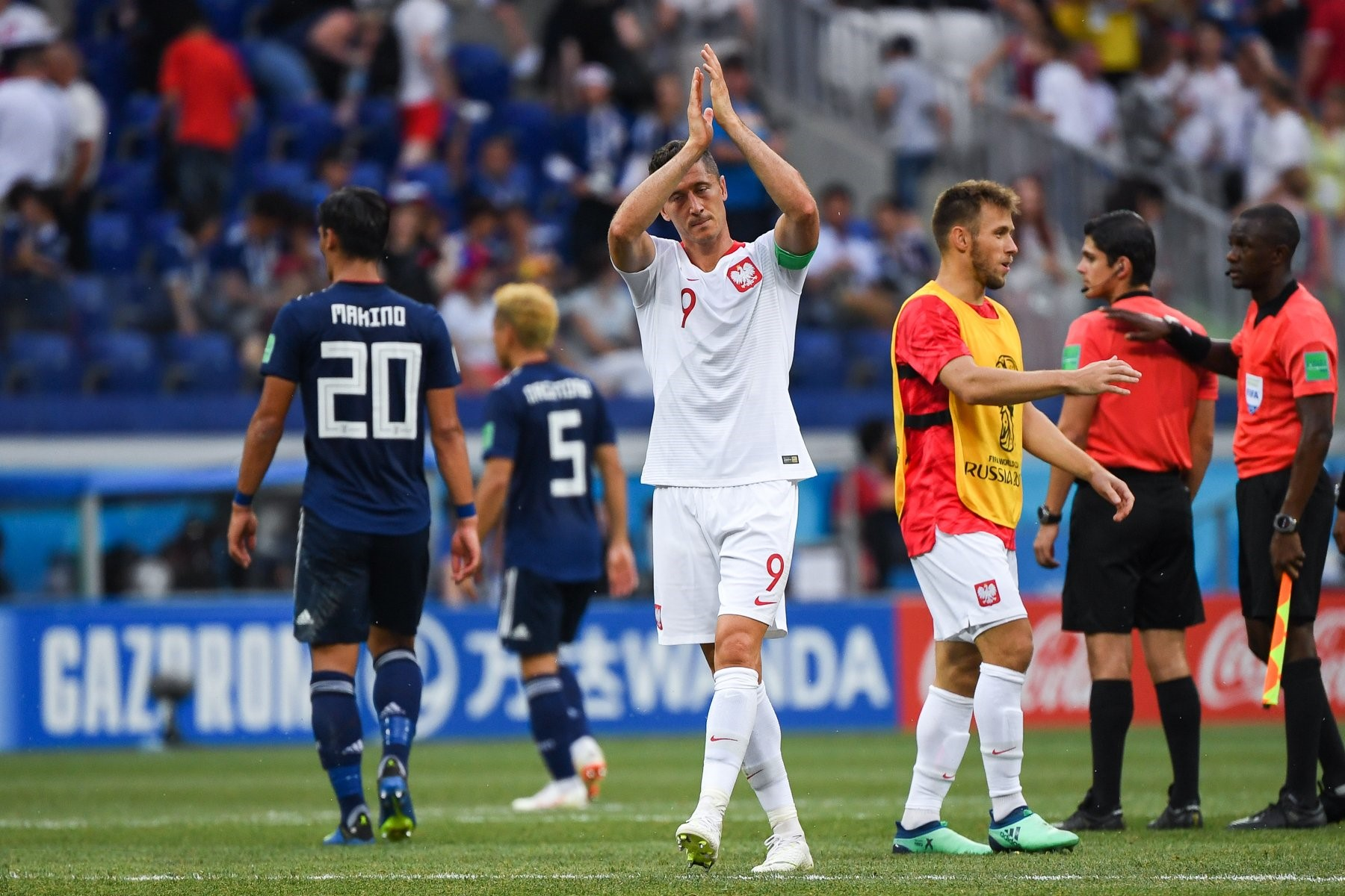 Robert Lewandowski celebrates victory over Japan - 2018 FIFA World Cup - Match 47